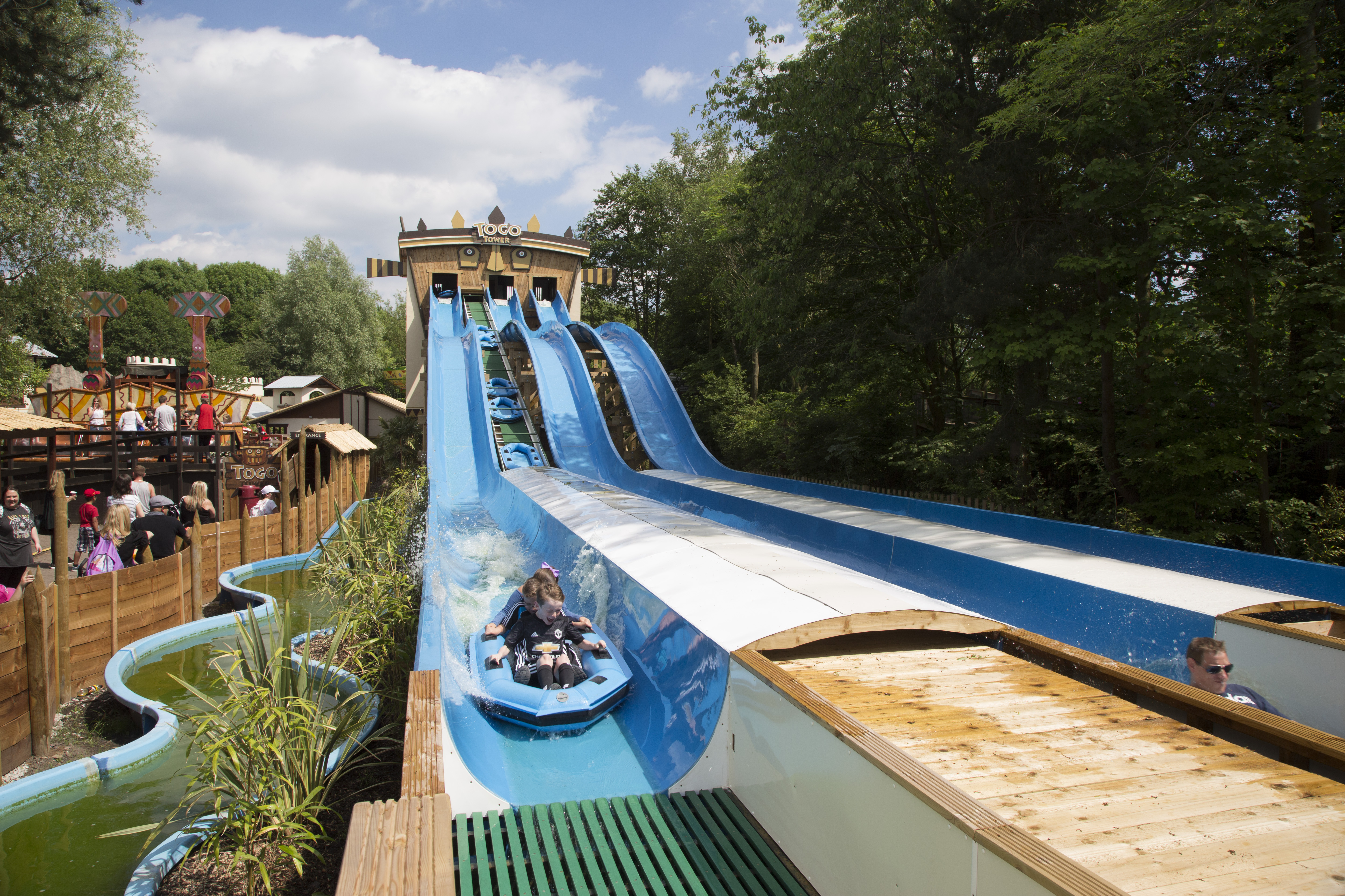 Togo Tower Waterslide